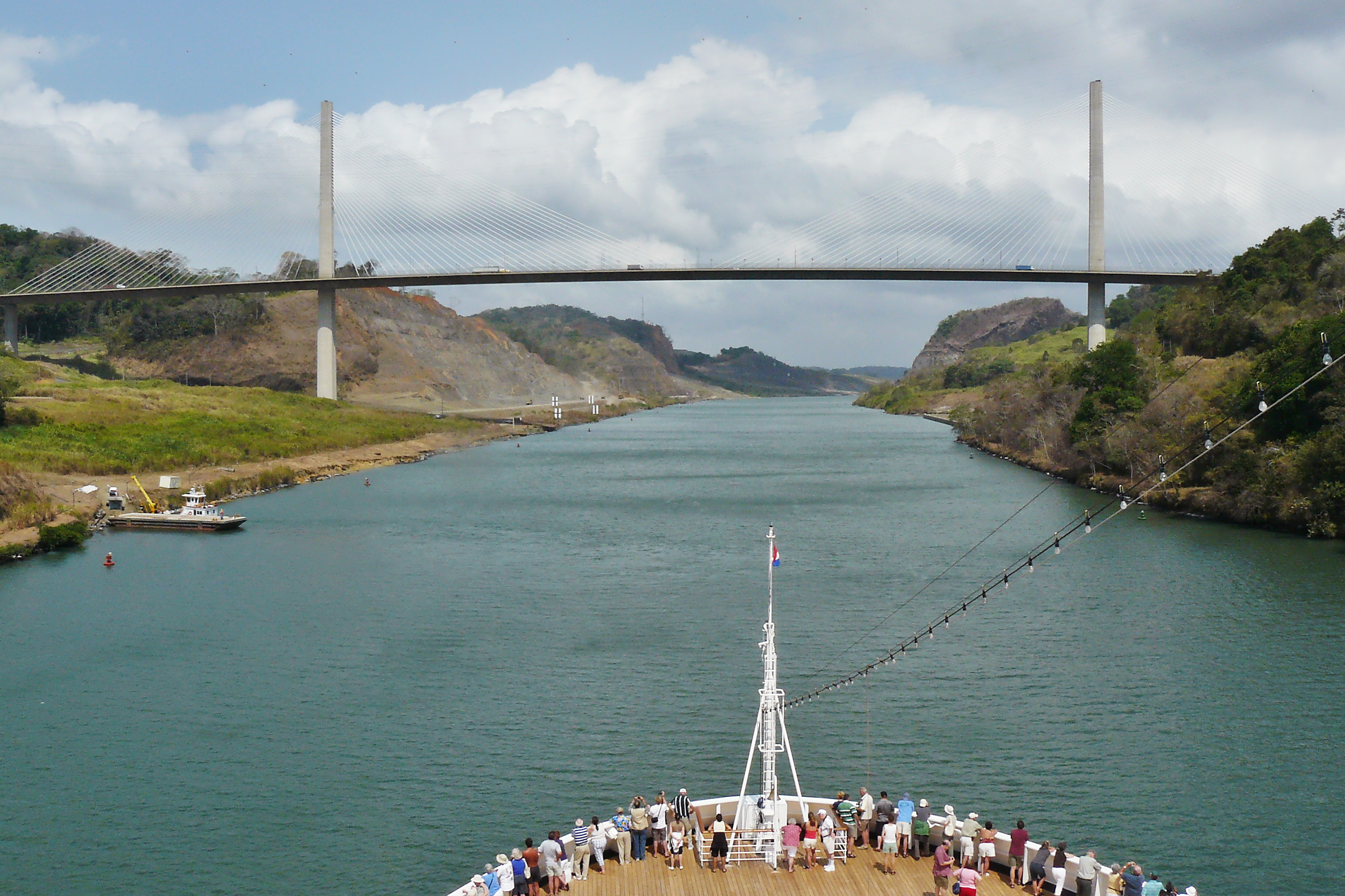 Centennial bridge and Gold Hill on the right